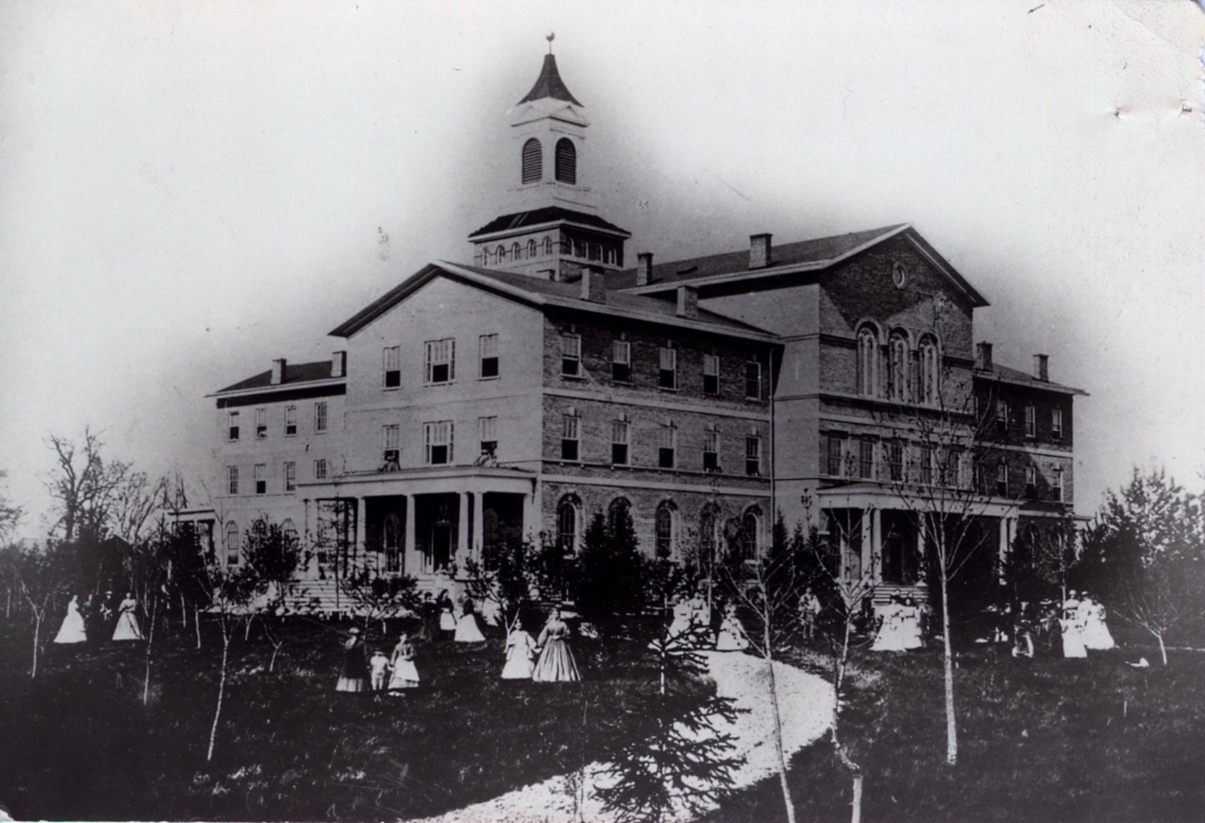 Fisher Hall